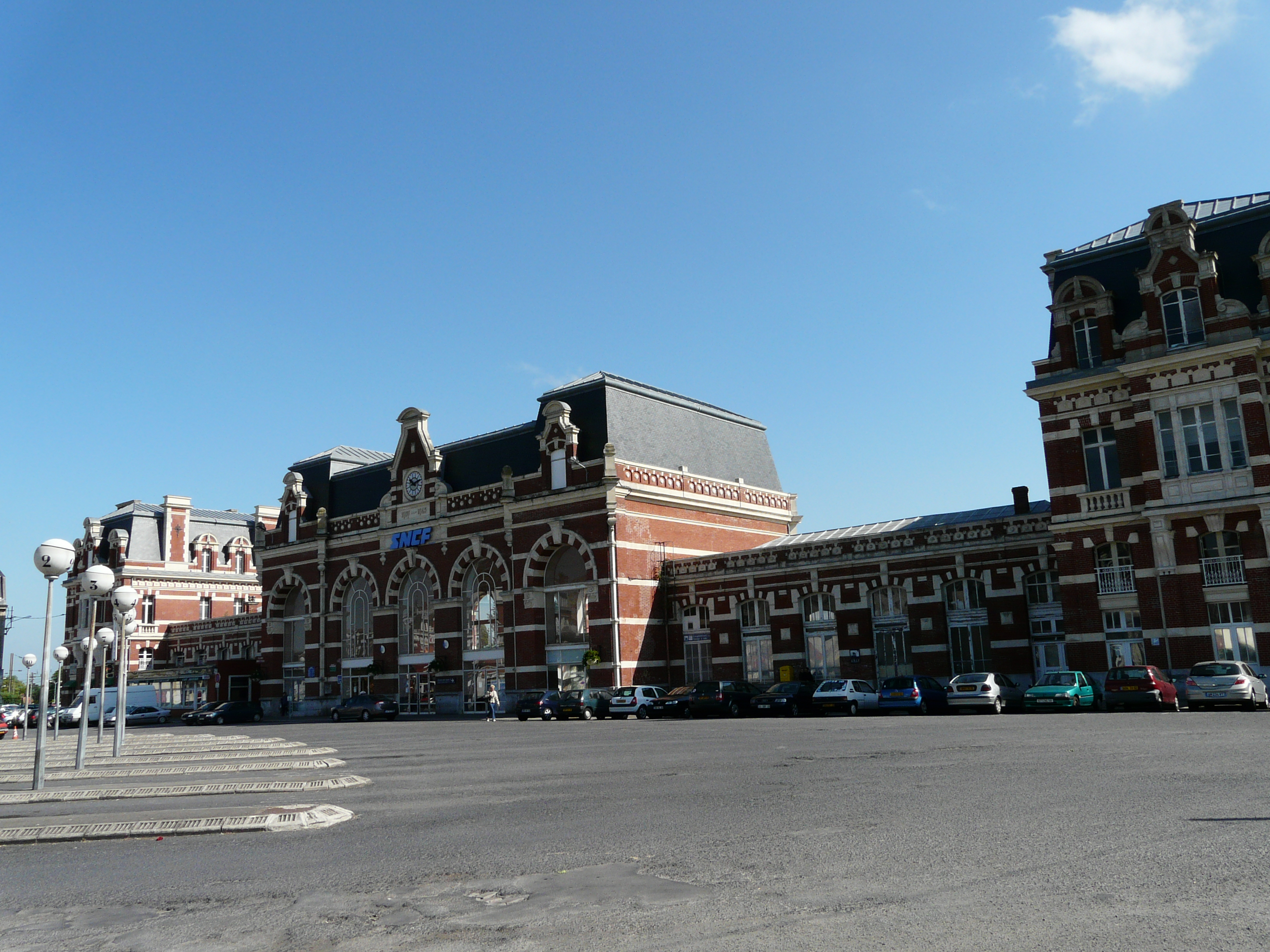 Train station in Cambrai